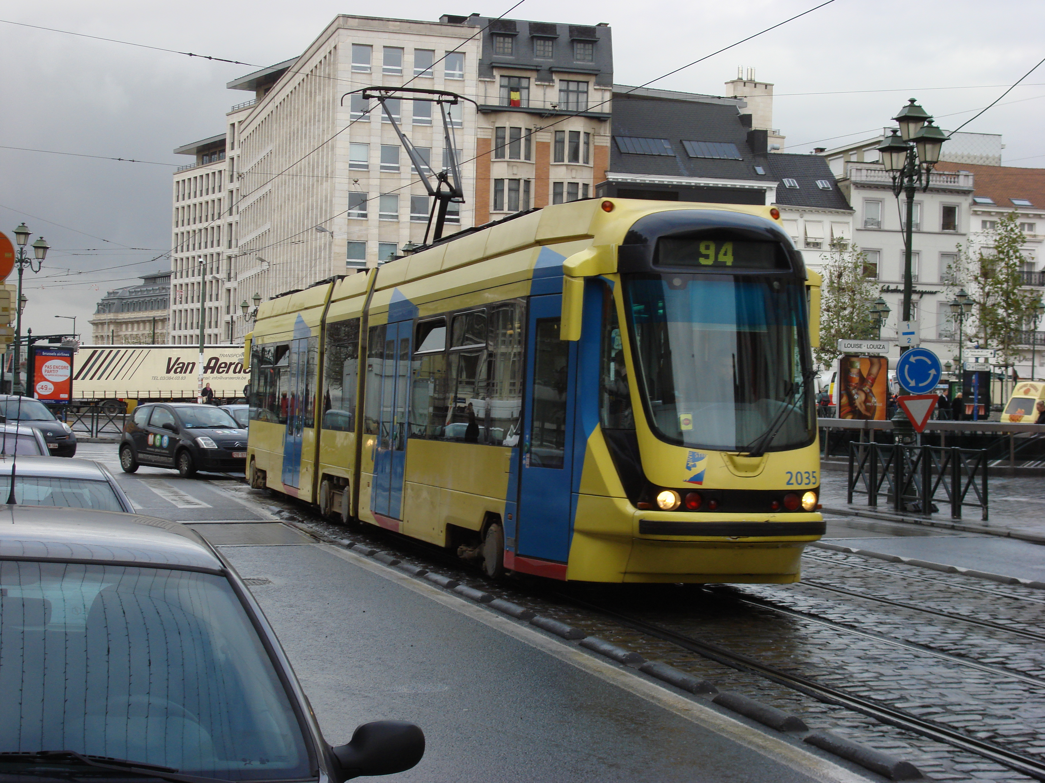 STIB-MIVB Tram number 2035 at Louiza/Louise